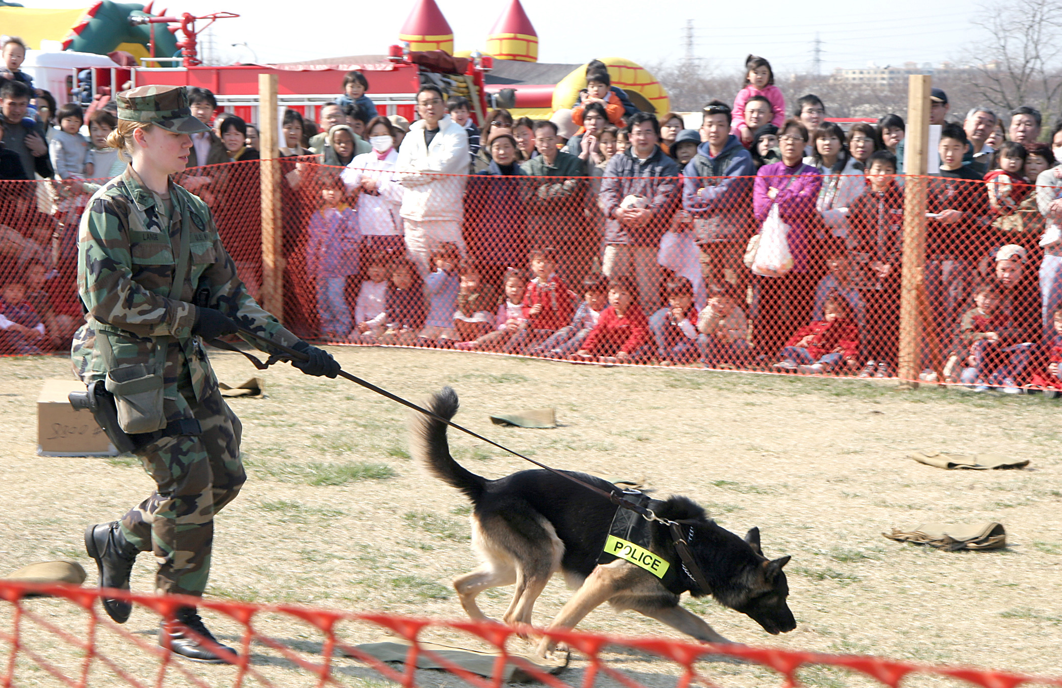 U.S. Naval Air Facility Atsugi, Japan (Mar. 26, 2005) - Master-at-Arms 2nd Class Jennifer Lange and her partner "Gunther", demonstrate how they search for drugs at the Naval Support Facility (NSF) Kamiseya, Japan, Cherry Blossom Festival. In addition to a military working dog demonstration by Naval Air Facility (NAF) Atsugi's Security Department, high schools, taiko drums teams, and bands performed at the annual event. Thousands of people attended the festival, which is meant to promote goodwill between NAF Atsugi, NSF Kamiseya and the local Japanese communities. The event theme is cherry blossoms, which are the national flower of Japan. More than 500 cherry blossom trees line the main road leading to Kamiseya. U.S. Navy photo by Journalist 3rd Class Matthew R. Schwarz (RELEASED)